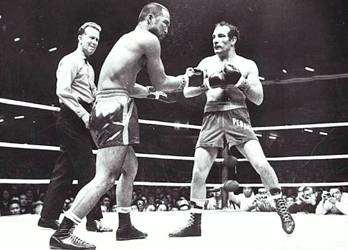 Nicolino Locche (right) on the ring against Takeshi Paul Fuji, December 12, 1968, Tokyo, Japan